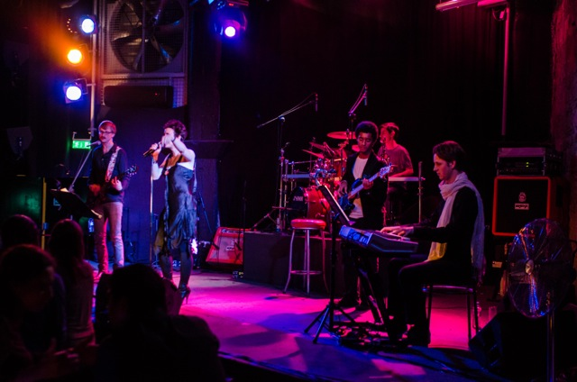 Santa Semeli & The Monks perform at RED in Nicosia, Cyprus 2014